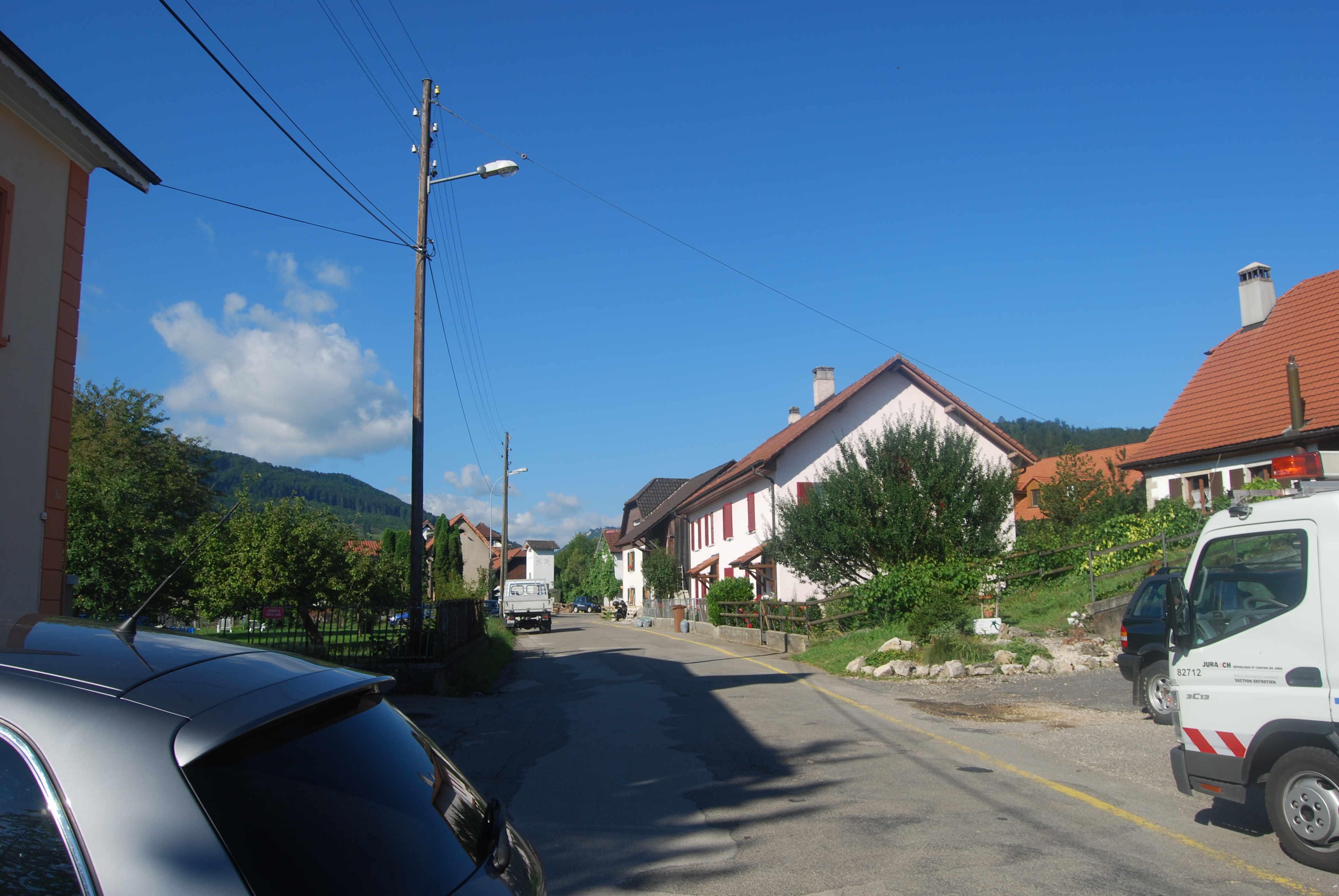 Glovelier, canton of Jura, Switzerland